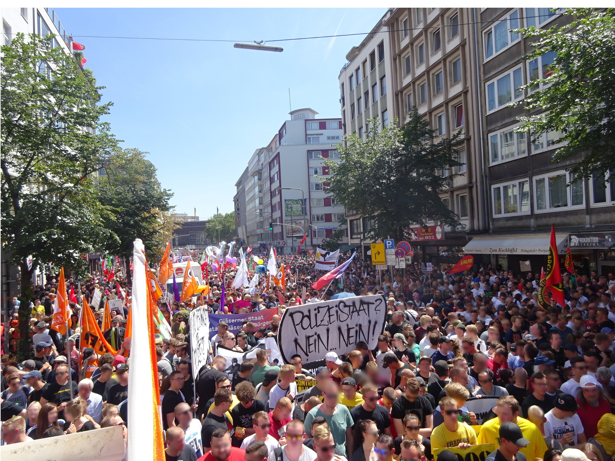 Demonstration gegen das geplante Polizeigesetz am 7.7.2018 in Düsseldorf